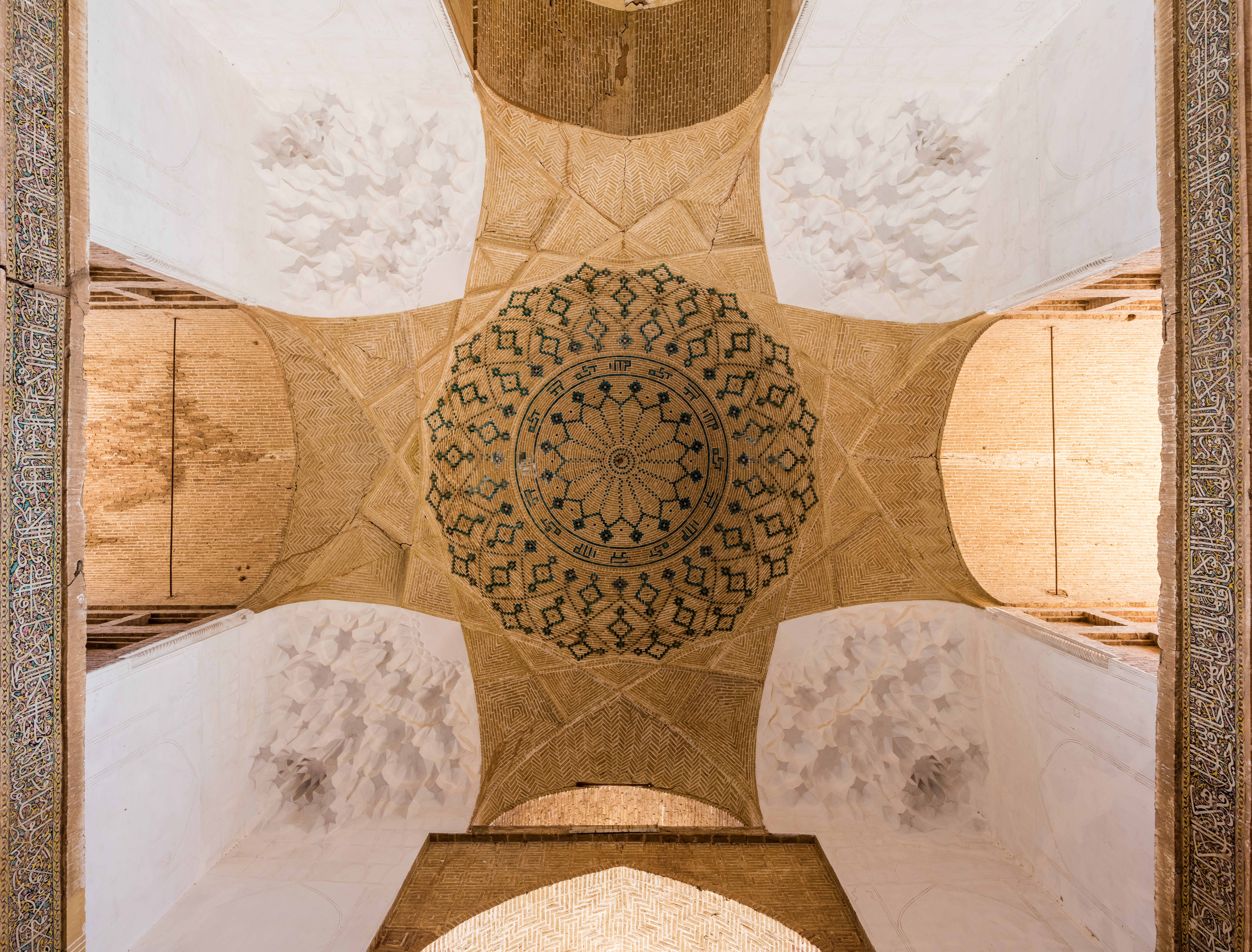 Dome of the Malek Mosque, the oldest and biggest mosque in Kerman, Iran. It's reminiscent of the rule of Malek Touran, the Seljuq king, and it was the sole mosque in the city until Mozaffari Grand Mosque was built. The mosque was built between 477 and 490 AH and is 101 metres (331 ft) long and 91 metres (299 ft) wide.